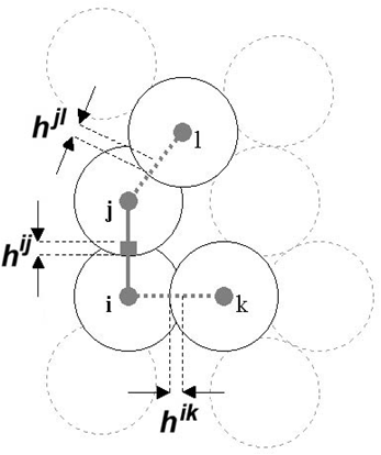 MCA neighbour in pair